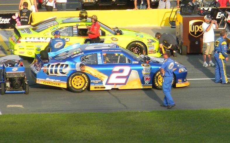 Brad Keselowski's car before the beginning of the 2011 All-Star Challenge.